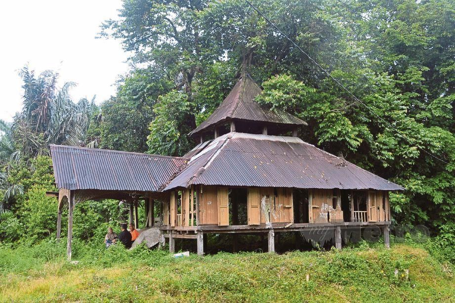 Pelangai's Old Mosque condition is getting worn out without any effort to upgrade.